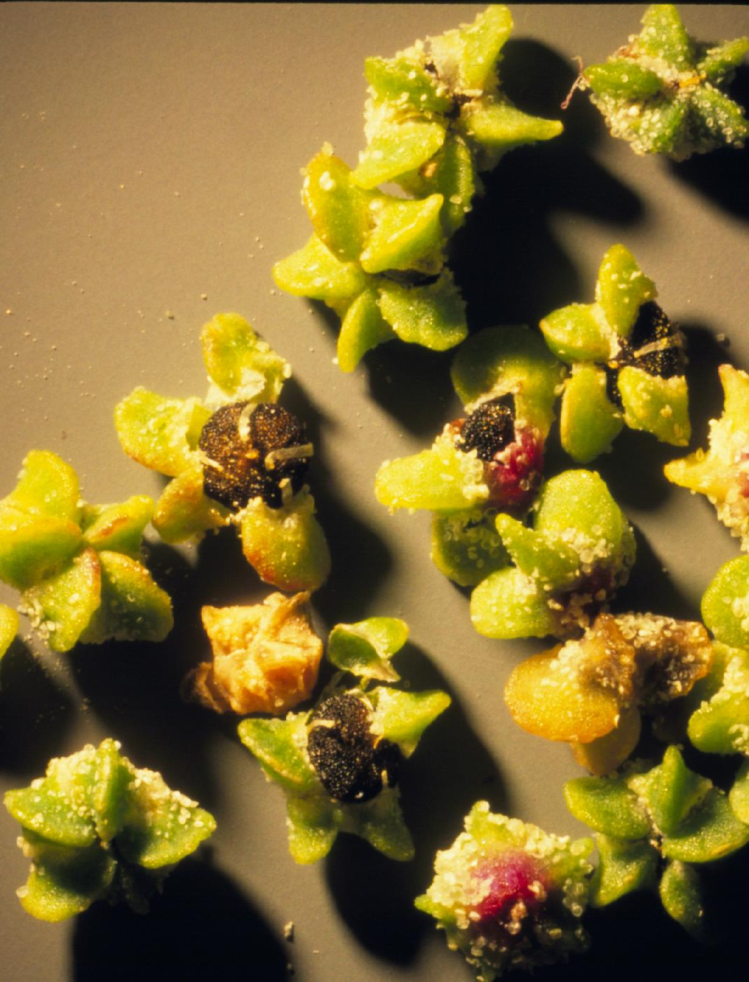 The pitted dark fruits ("seeds") are readily exposed as the flower matures in pitseed goosefoot.